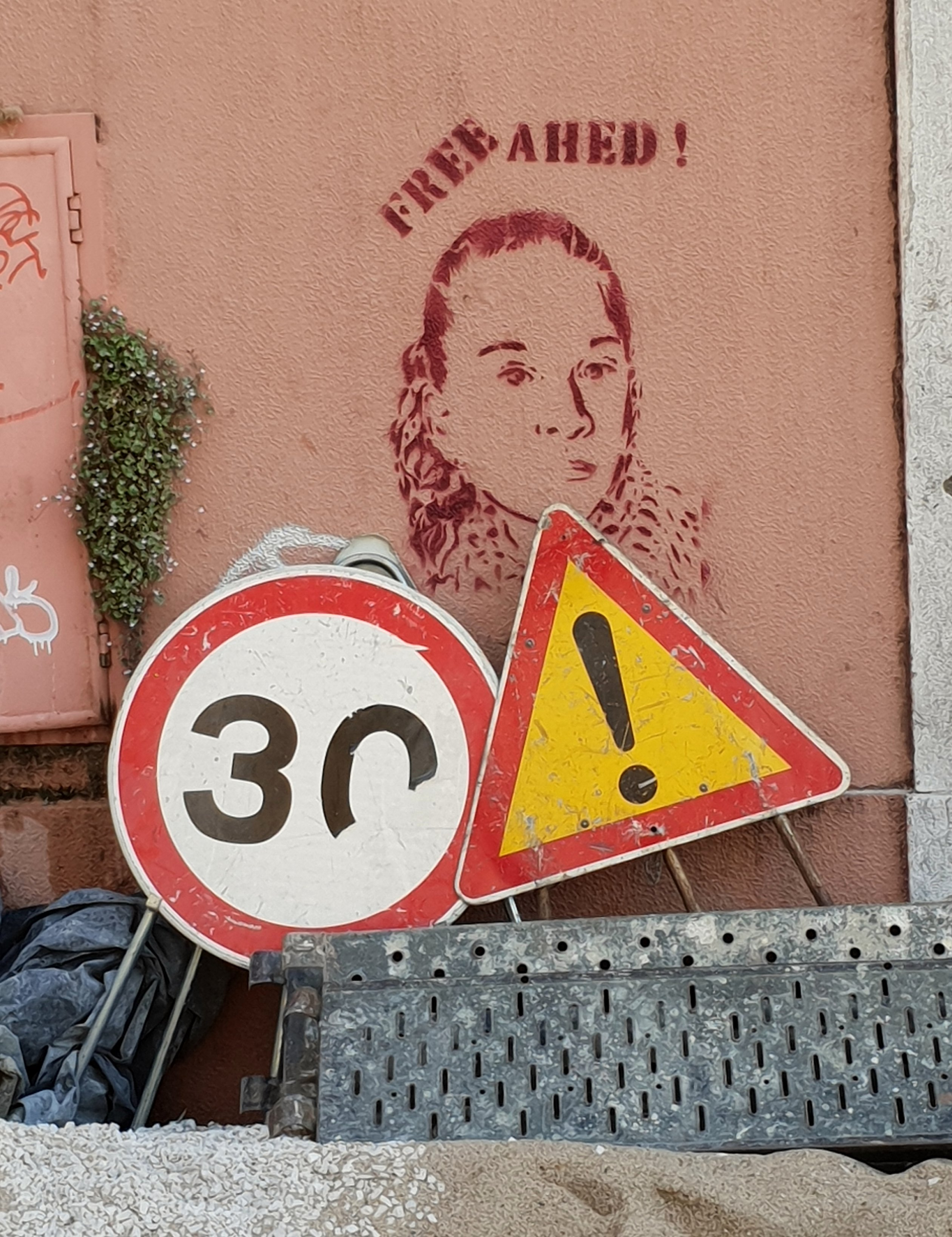 "Free Ahed" Lisbon 2018